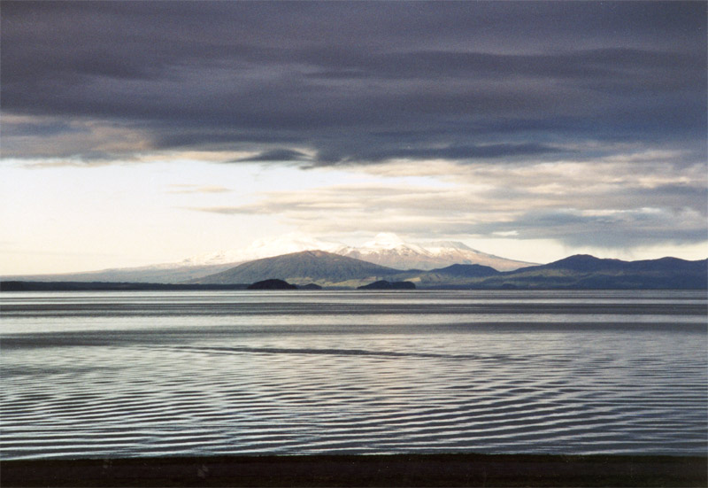 View of Lake Taupo, New Zealand, taken by the user in 2001.